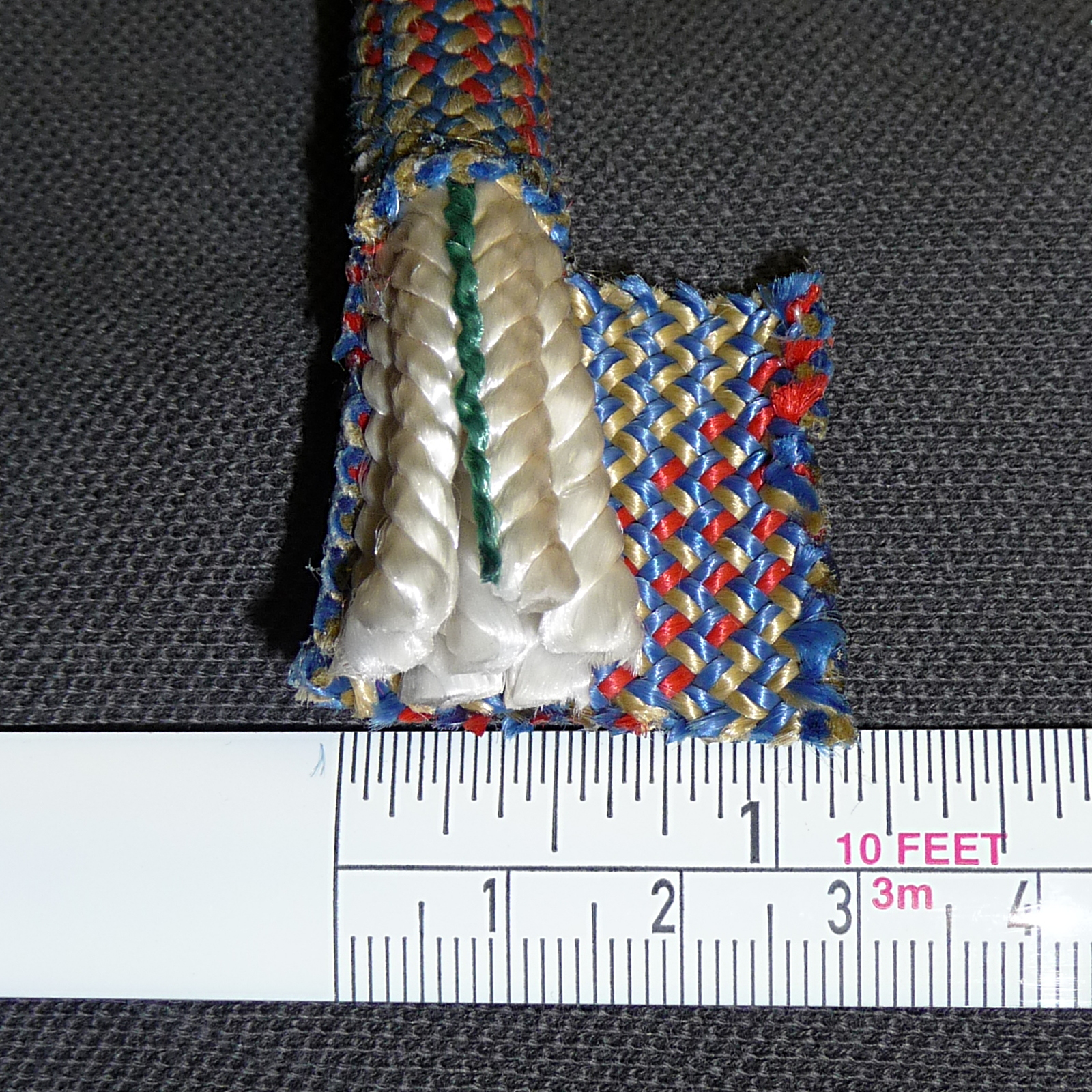 Internal structure of 10.7mm dynamic kernmantle climbing rope. This nylon rope is composed of a 40 strand "two-over-two" braided sheath and a core made from seven 3-ply yarns with a single green tracer strand running parallel to the core yarns. Note that four of the seven core yarns are S-twist (left-handed) and three are Z-twist (right-handed). Sample from trimmed end of a used climbing rope.